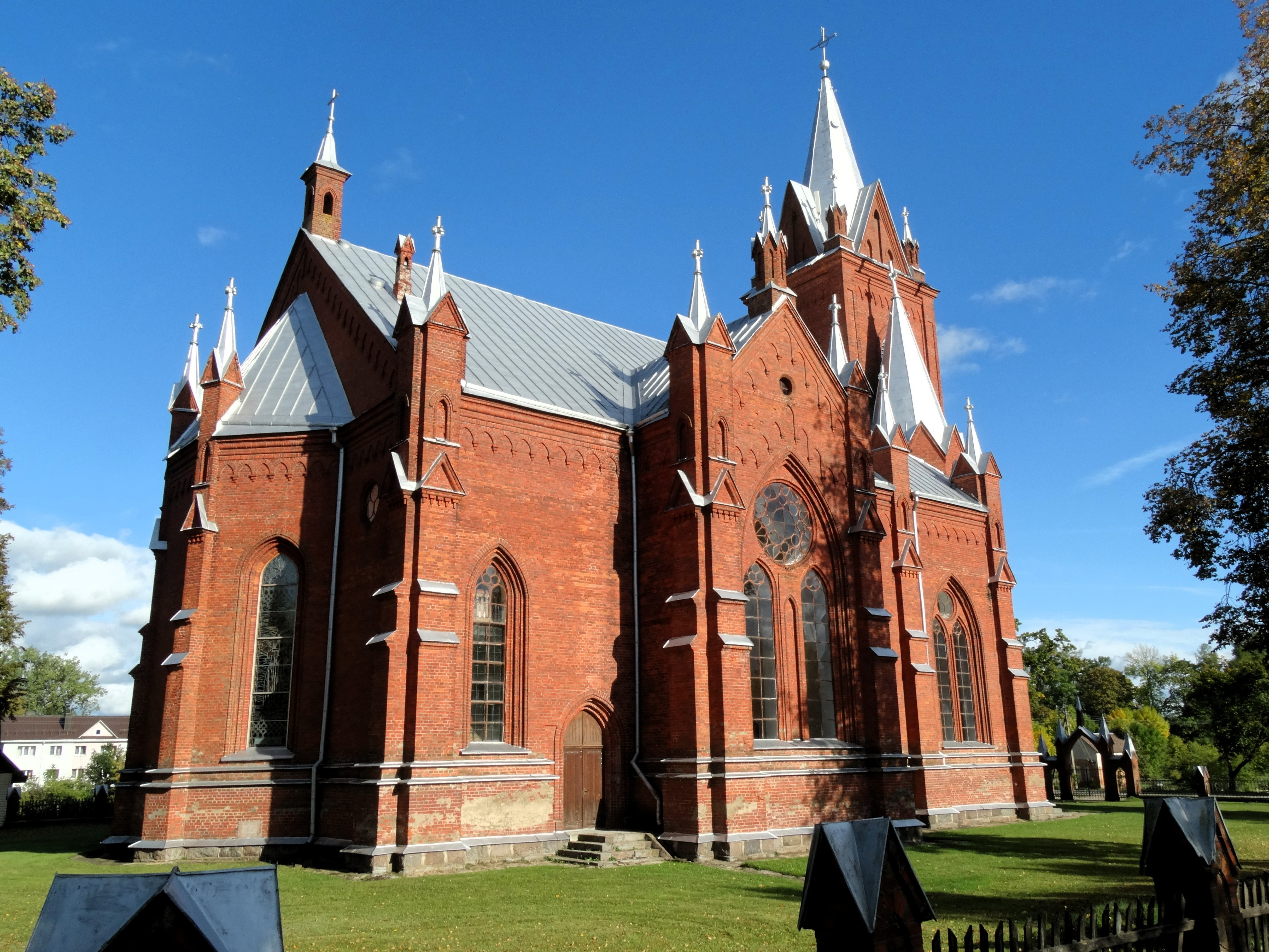 Catholic church, Vidiškės, Ignalina district, Lithuania